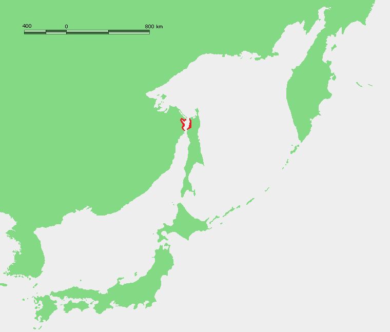 location map